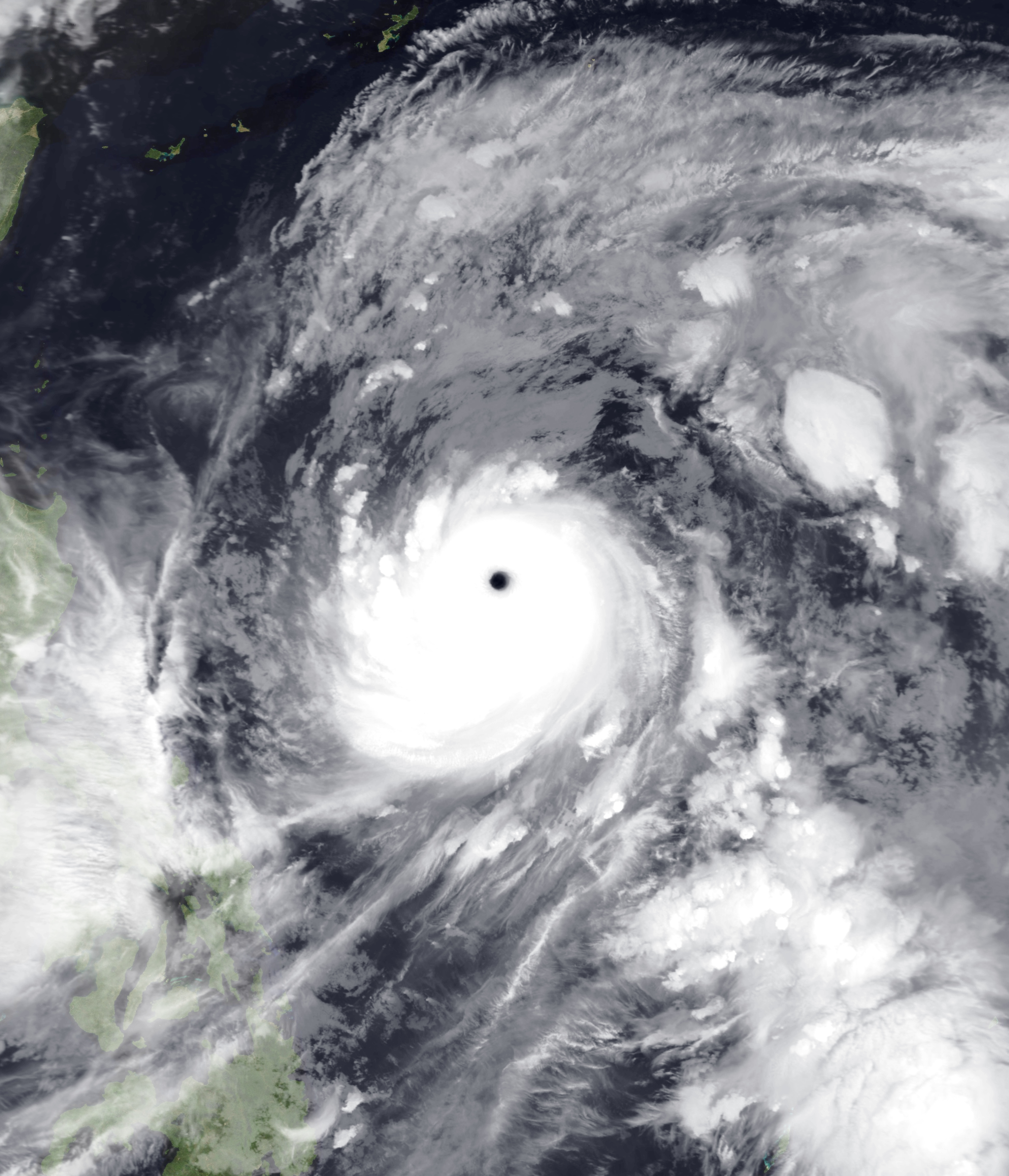 Typhoon Sanba shortly before peak intensity on September 13 east of the Philippines